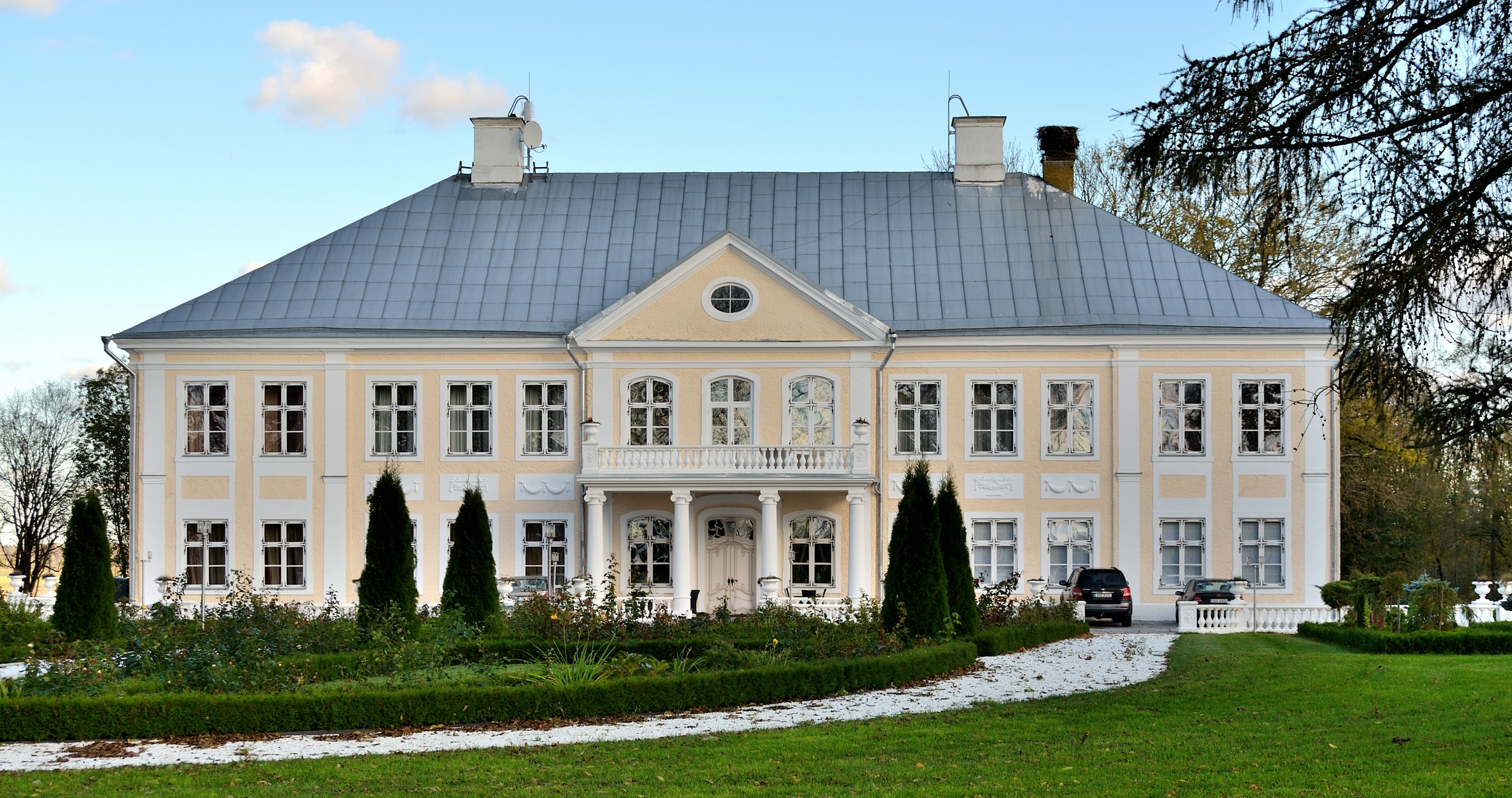 Ääsmäe manor main building This photograph was taken with a Nikon D3100